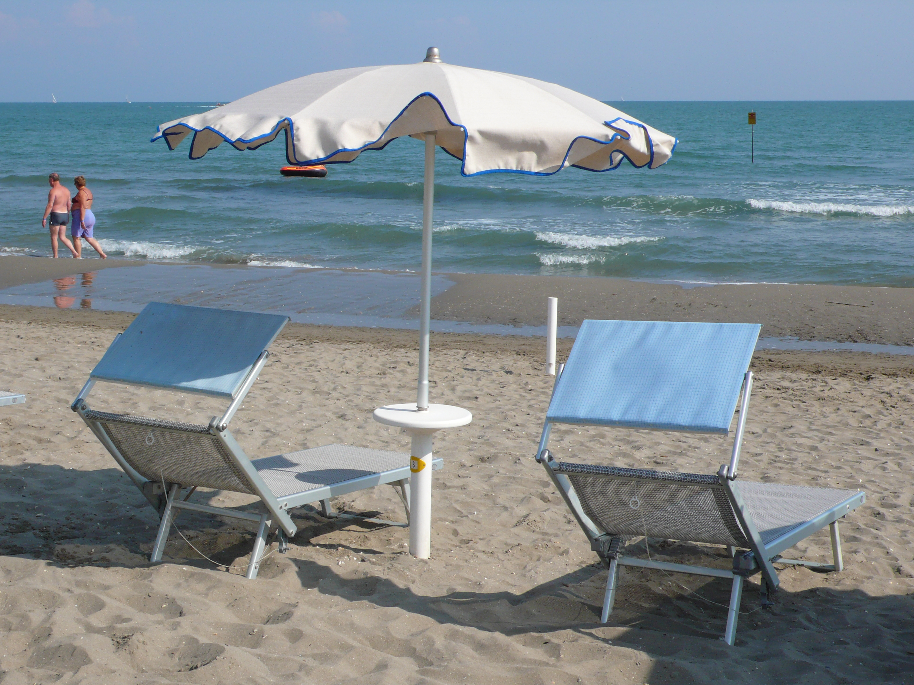 Eraclea Mare Spiaggia Est Bagni Mete